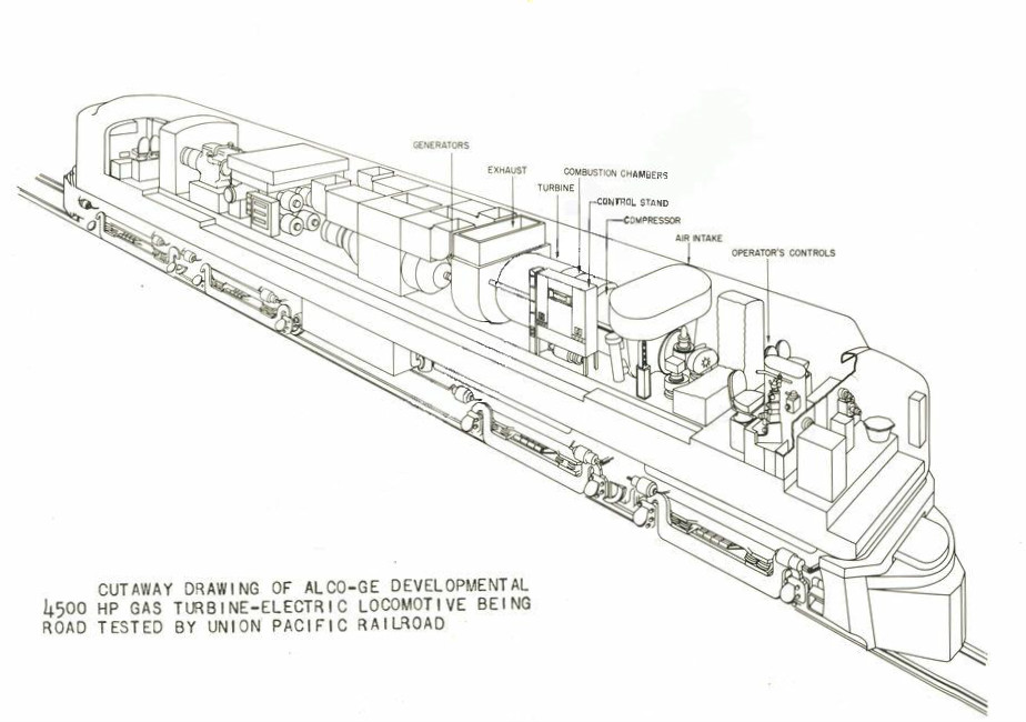 Diagram of an Alco-GE 4500 hp gas turbine electric locomotive in development and tested by Union Pacific. The diagram shows an engine that has a cab at both ends. Union Pacific purchased units similar to this but with only one cab after "test driving" a a locomotive constructed from this diagram.